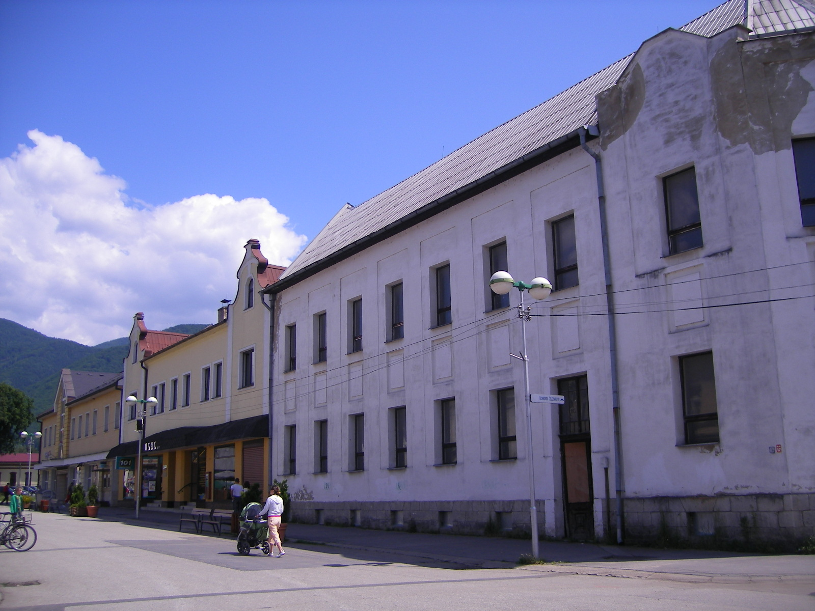 Vrútky